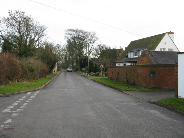 Wykin Village Taken alongside Wykin Hall Farm at the road junction in the village.